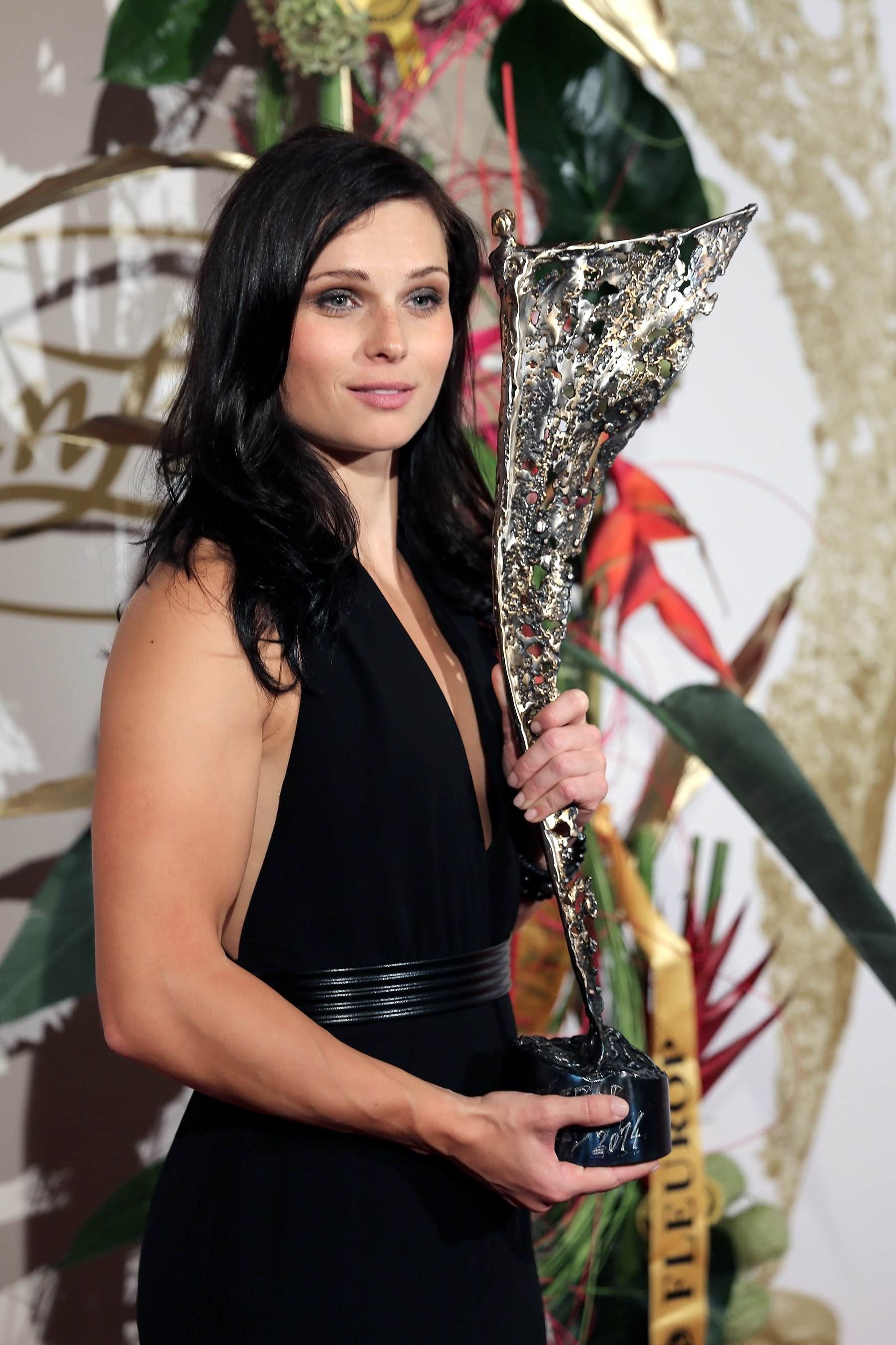 Anna Veith - Austrian Sportspersonalities of the Year 2014 (Austria Center Vienna).